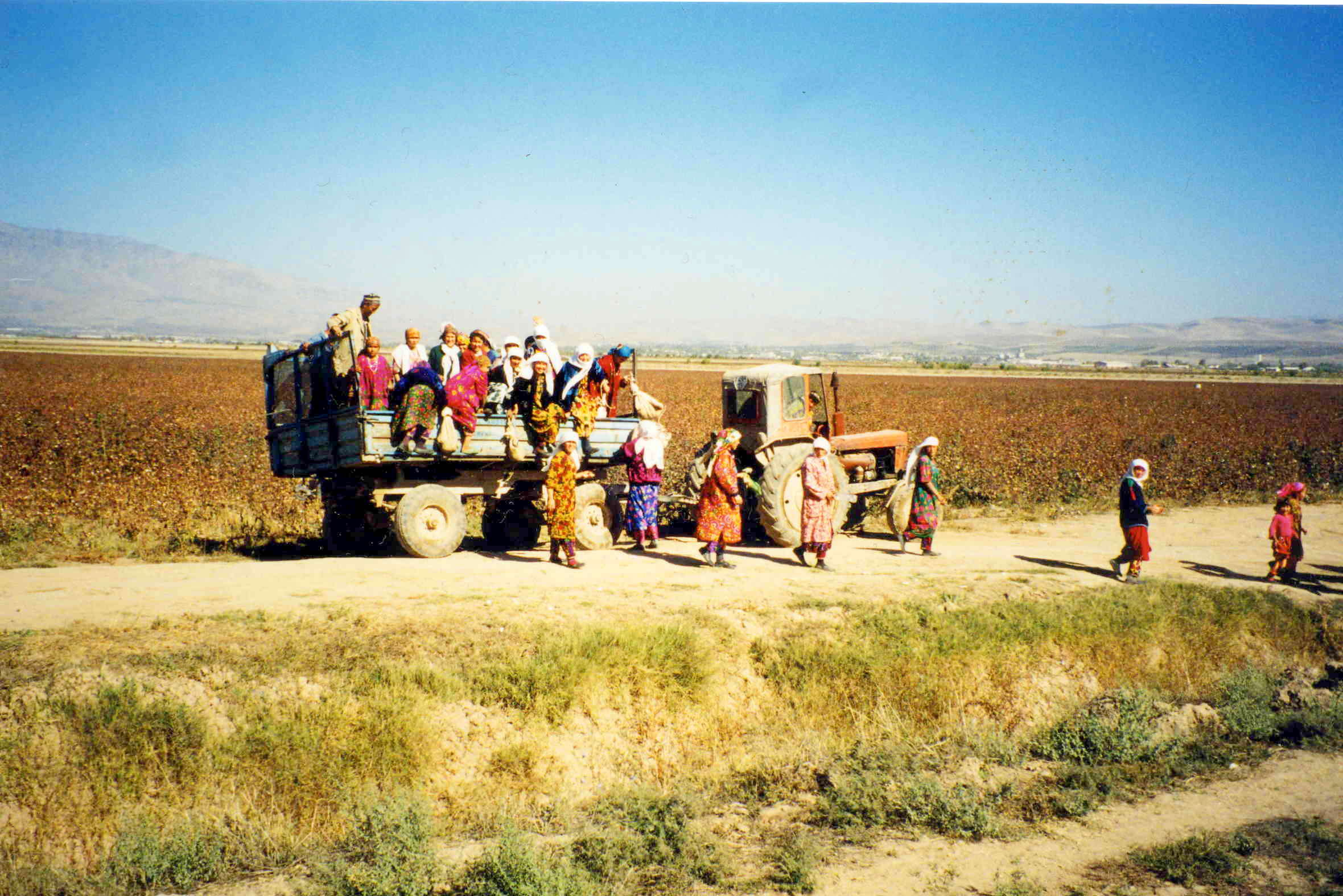 Tajikistan: Women arriving to pick cotton. The cotton fields, all over Central Asia, are irrigated from the great Amu Darya. Now this great and historical river can no longer replenish adequately the Aral Sea, consequently the Aral Sea is drying up.